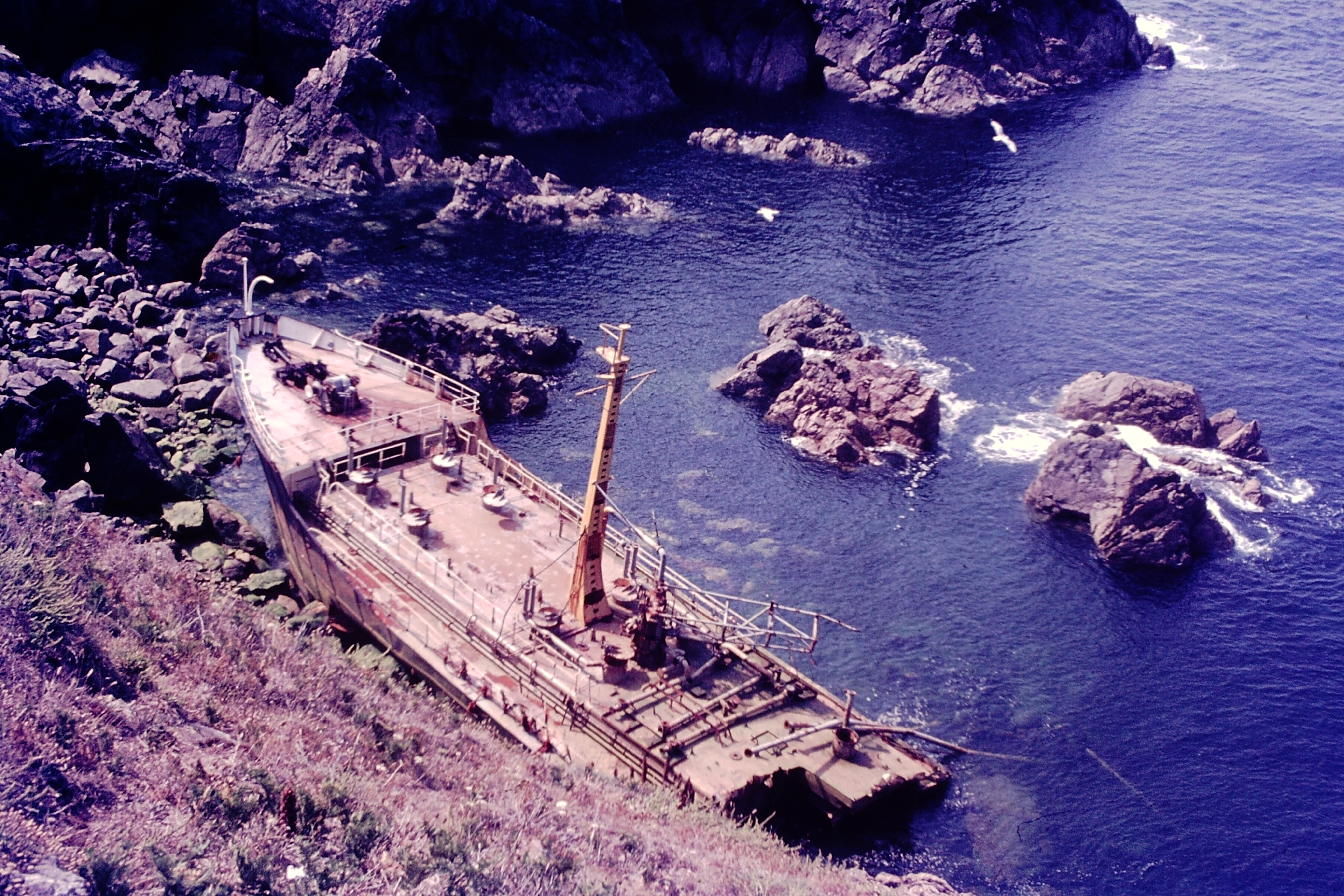 The bow portion of Point Law rests on the rocks on the southwest coast of Alderney, Channel Islands.